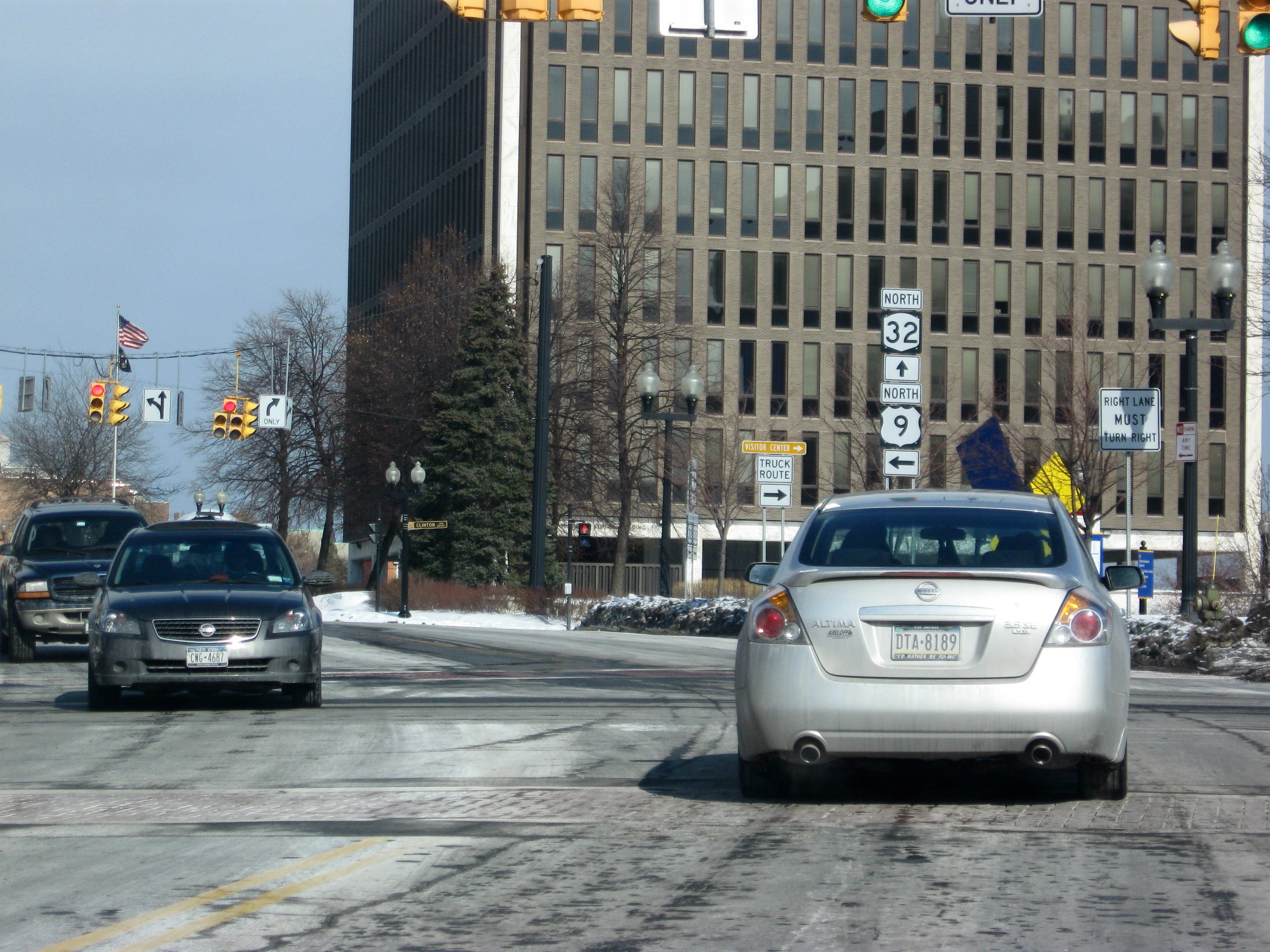 Northbound New York State Route 32 at an intersection with U.S. Route 9 in Albany, New York